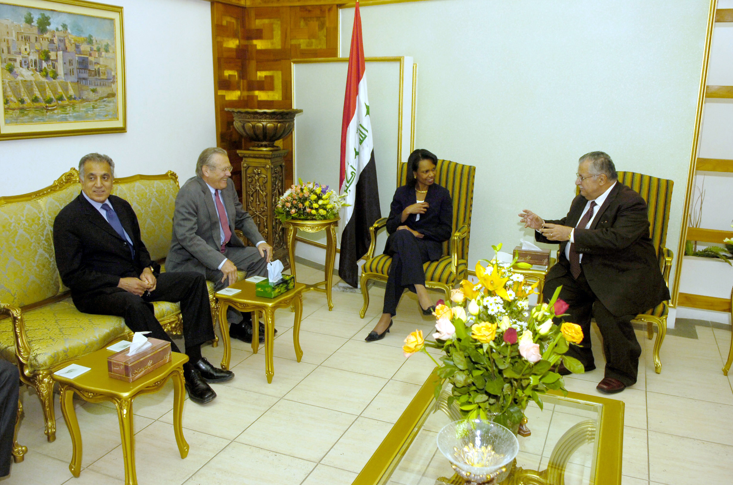 From left U.S. Ambassador to Iraq Zalmay Khalilzad, Secretary of Defense Donald H. Rumsfeld and Secretary of State Condoleezza Rice meet with Iraqi President Jalal Talabani in Baghdad, Iraq, on April 26, 2006. Rumsfeld and Rice made an unannounced visit to Iraq to meet with senior military commanders and Iraq's new Prime Minister designate Jawad al-Maliki. DoD photo by Petty Officer 1st Class Chad J. McNeeley, U.S. Navy. (Released). U.S. Department of Defense